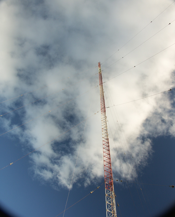 Titahi Bay Antenna, 220Metres, 722 feet, highest in NZ after Sky Tower. Highest in Southern Hemisphere when built. - photo taken and uploaded by Paul Moss, Photographer, Artist, Paul Moss Photographer Artist NZ